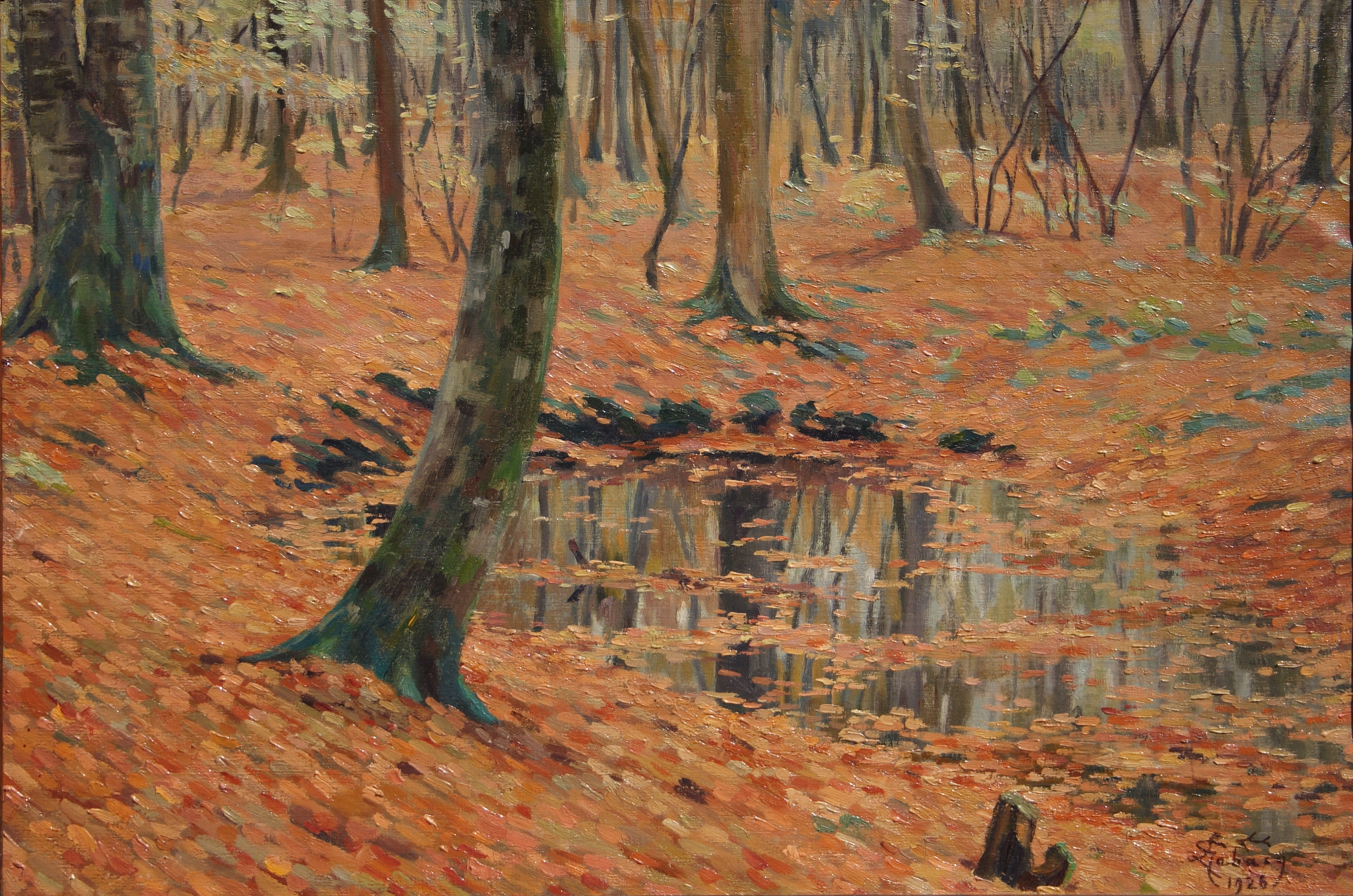 Pond in the Halatte forest by Georges Emile Lebacq.